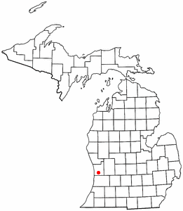 User Seth Ilys on [en.wikipedia], Released under the GNU Free Documentation License. Originally from [en.wikipedia]; description page is (was) here 17:39, 17 January 2005 Seth Ilys 261×300 (12,828 bytes)